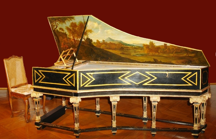 Harpsicord, Cembalo, Clavecin, Clavecimbel Ioannes Rückers (1624) in Colmar and from the Condé-en-Brie castle (Aisne, France).